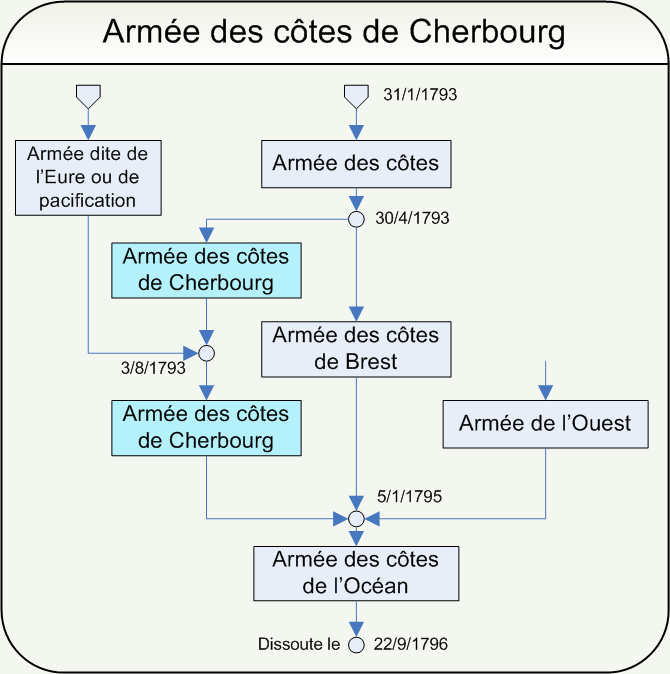 Chronology of the "Armée des côtes de Cherbourg" (Army of the French Revolution)